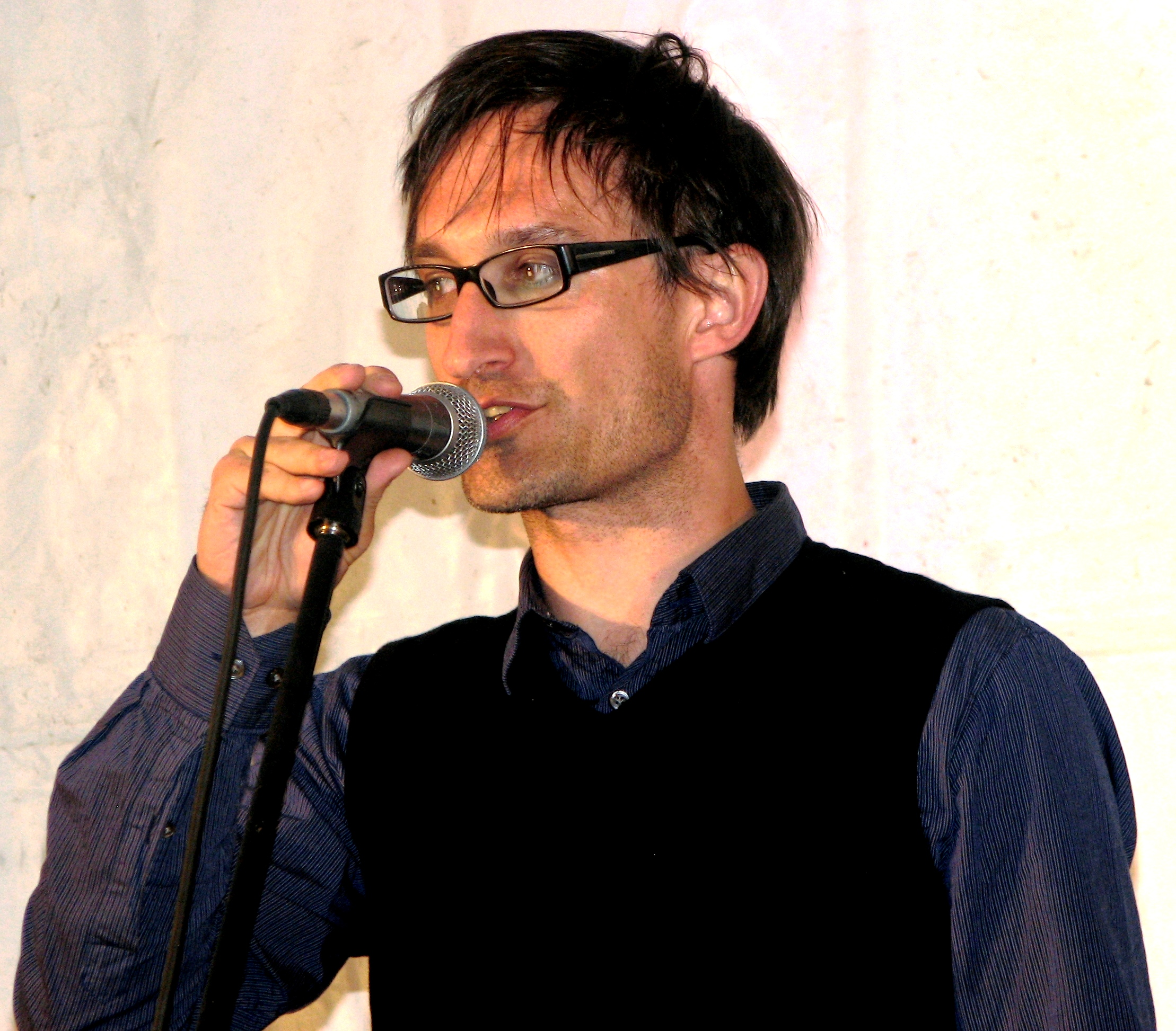 Gregor Podlogar performing in Tallinn Literature Festival HeadRead